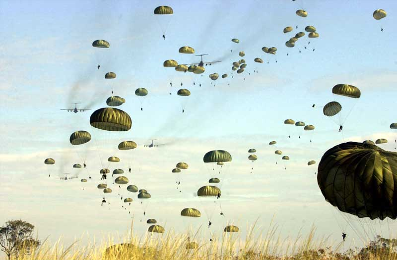 SINGLETON, Australia --Parachutes paint the sky as more than 270 U.S. soldiers jumped out of four C-141 Starlifters onto the rolling hills of Singleton Drop Zone May 5. The jump was part of exercise Tandem Thrust 01, a combined U.S.-Australian crisis action planning and contingency response military training exercise involving more than 27,000 soldiers, sailors, airmen and Marines. (Australian army photo by Cpl. Jason Weeding)